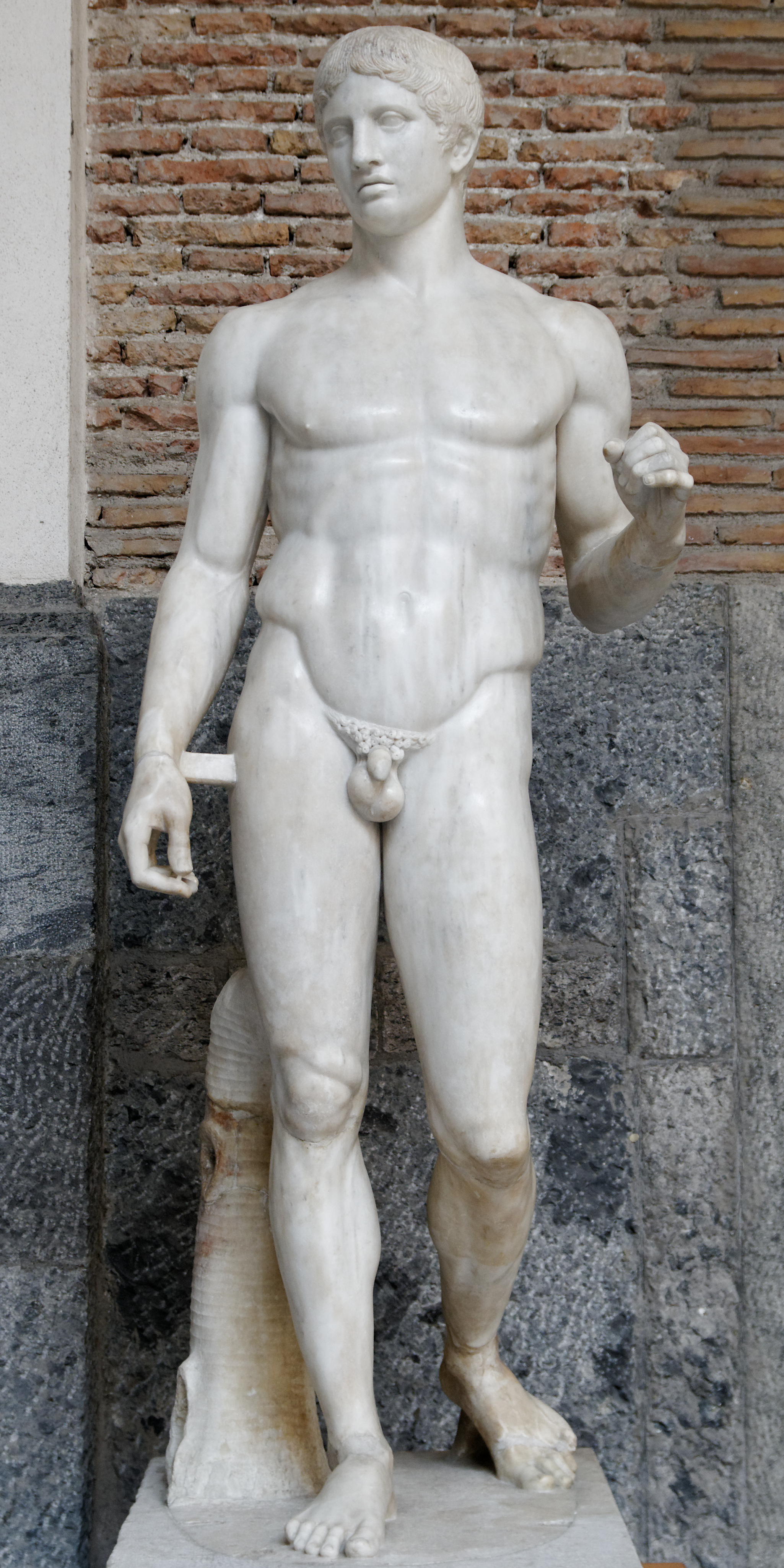 Statue of a young warrior carrying a spear. Roman copy of the Imperial era after a Greek original of the Late Classicism.